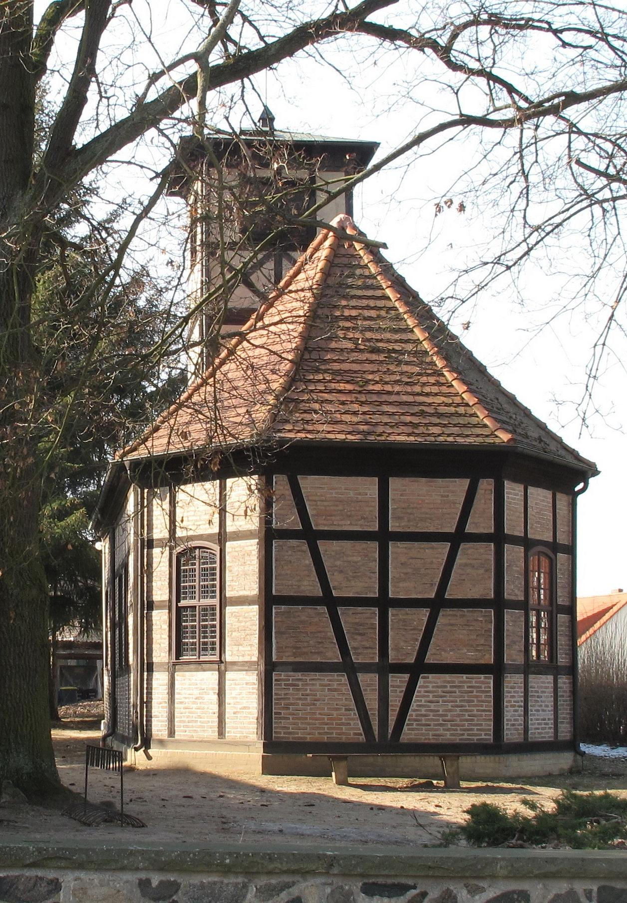 Village church Michendorf. The listed timber framed church was built in 1743. Michendorf is the name giving part of the municipality Michendorf in the district Potsdam-Mittelmark, state Brandenburg, Germany.